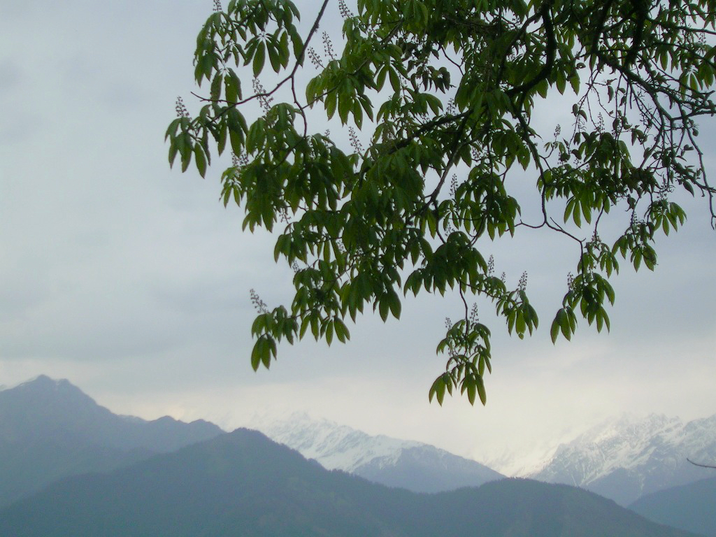 Aesculus indica, Horse Chestnut, Pithoragarh, Himalayas, India